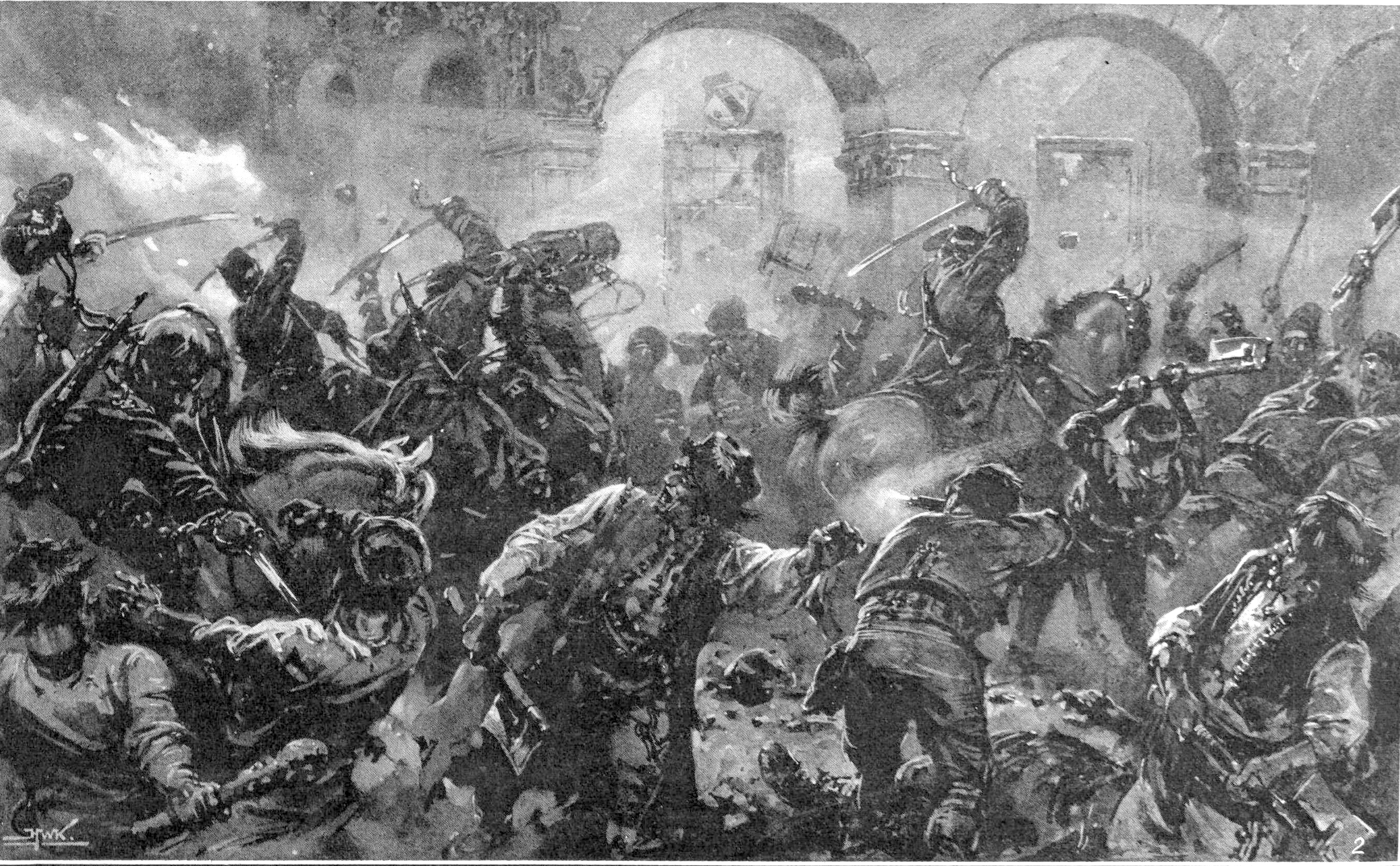 A cavalry patrol sabring the rioters in the streets of Comanesti